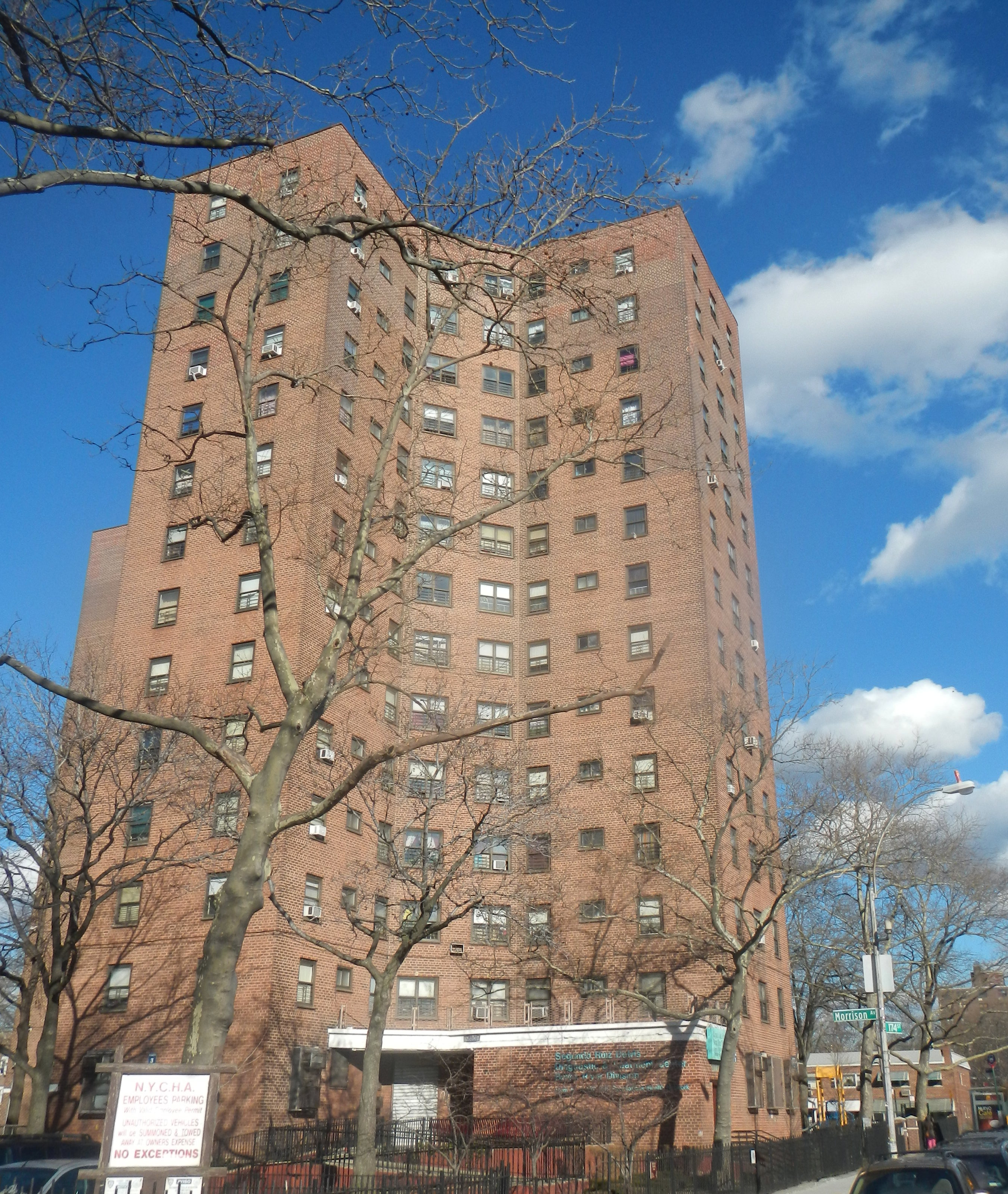 Looking northeast across Morrison Avenue and 174th Street at apartment tower on a sunny early afternoon.